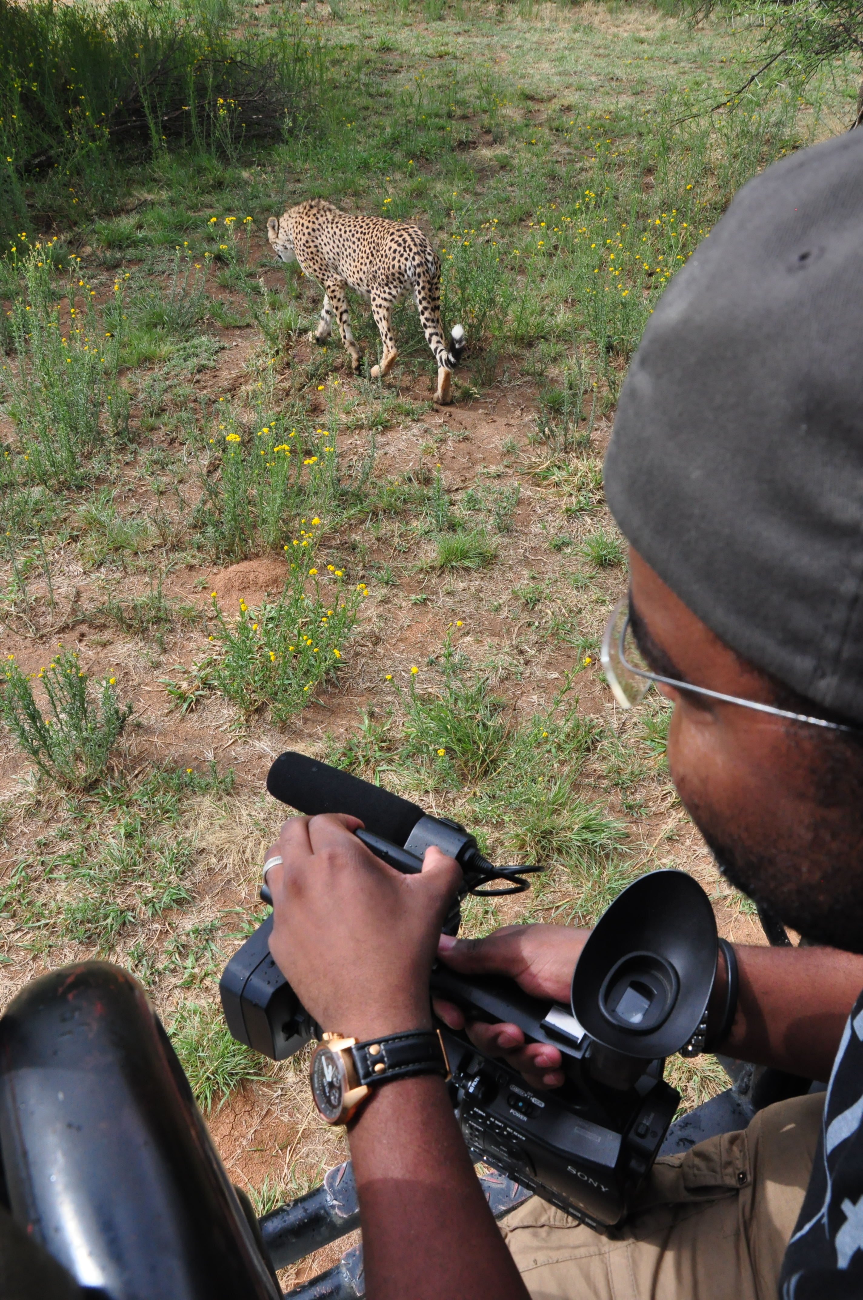 Wildlife Documentary production in Namibia This is an image of "African people at work" from Namibia